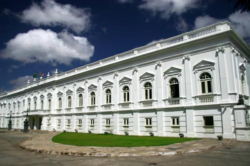 Leoes Palace in São Luís, Brazil